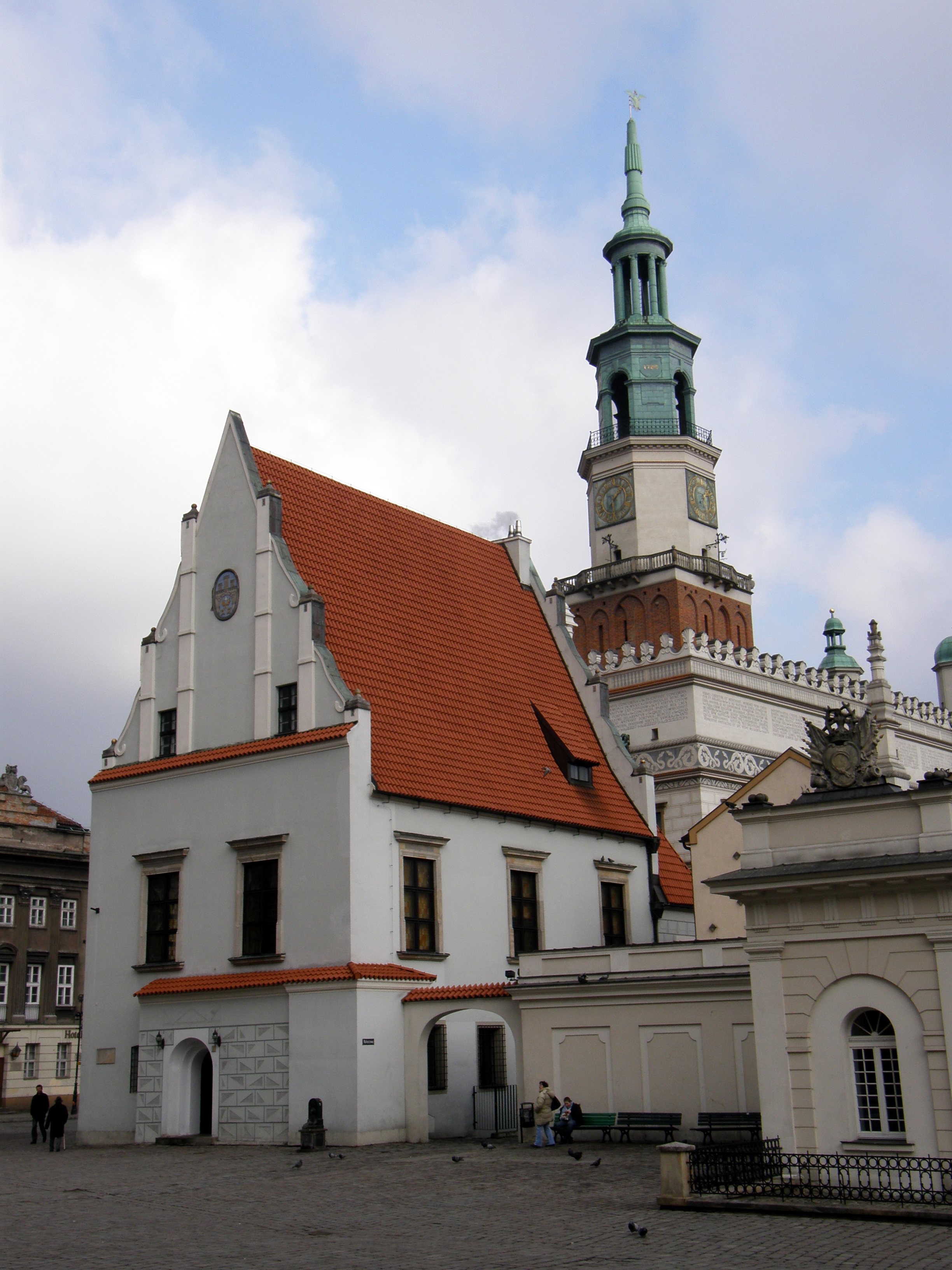 Old Market Square in Poznań, City scales